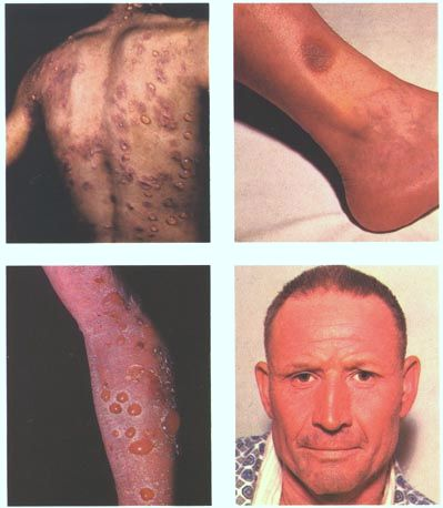 Drug eruptions. A. Bullous dermatitis medicamentosa caused by sulfathiazole. B. Fixed drug eruption caused by phenolphtalein. C. Bullous erythema multiforme. D. Diffuse photosensitivity reaction.